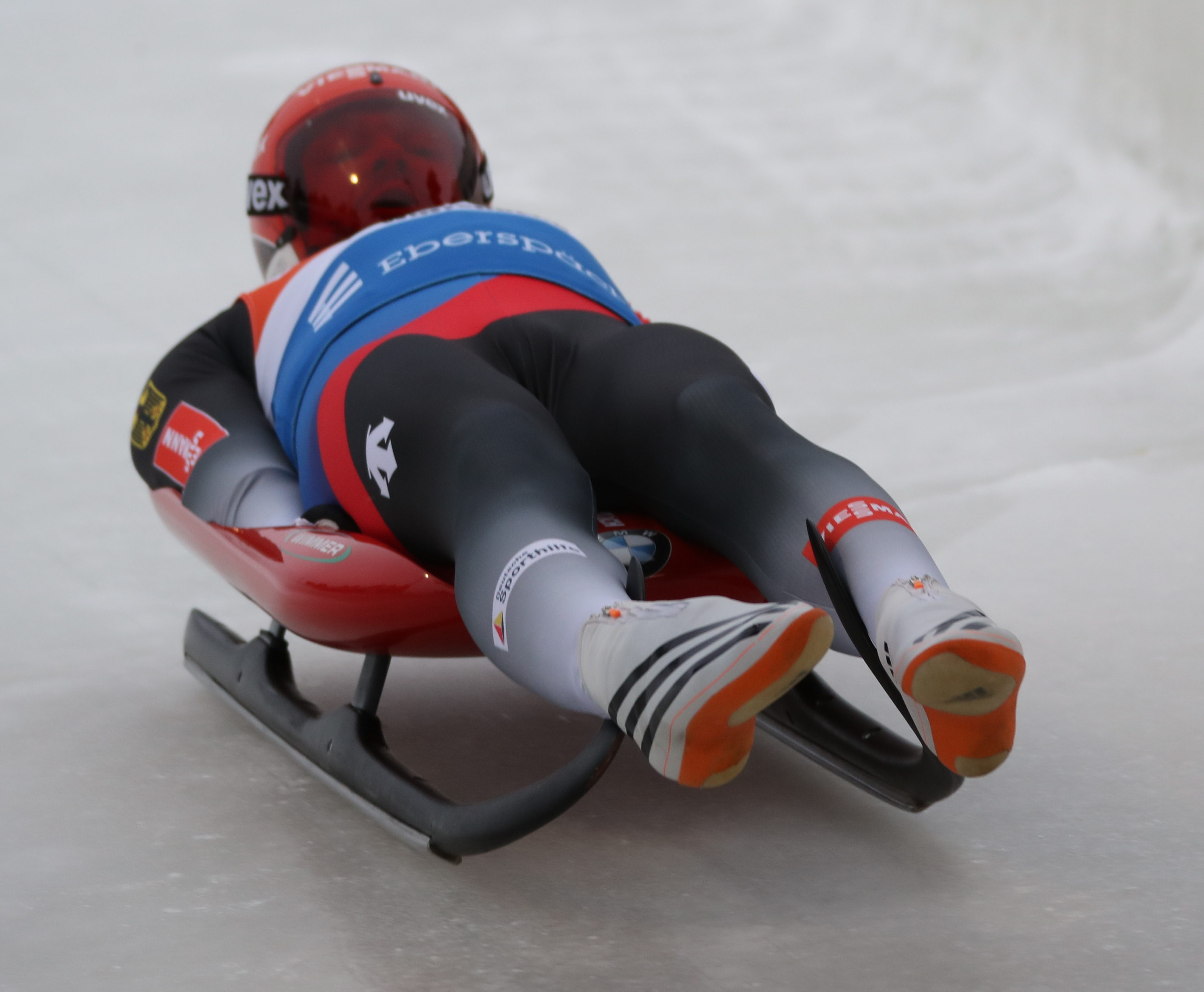 Luge World Cup Men in Winterberg